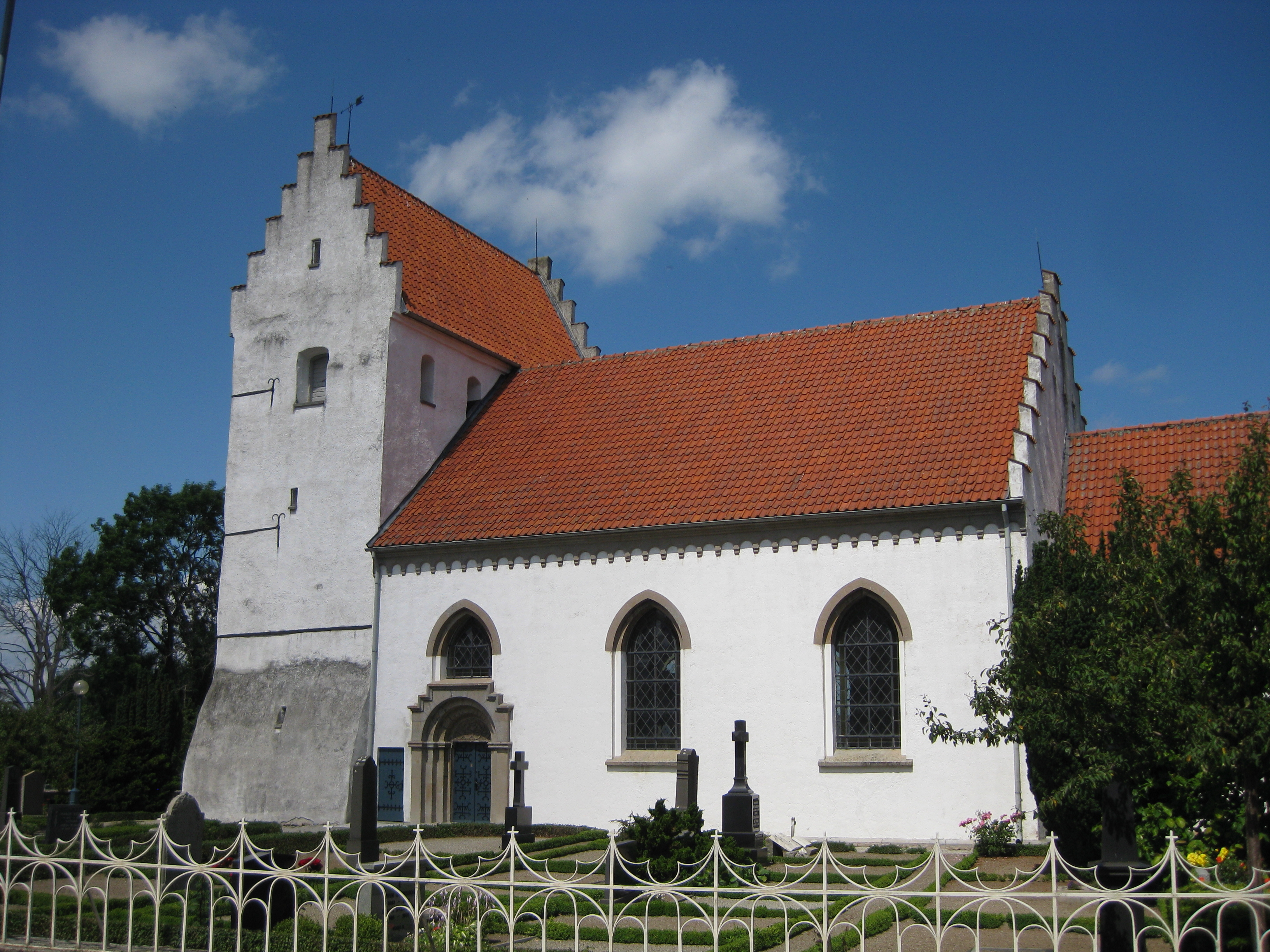 Simris church in Scania, Sweden